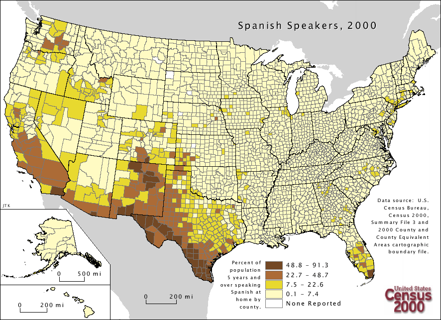 Spanish speakers in the United States by counties in 2000